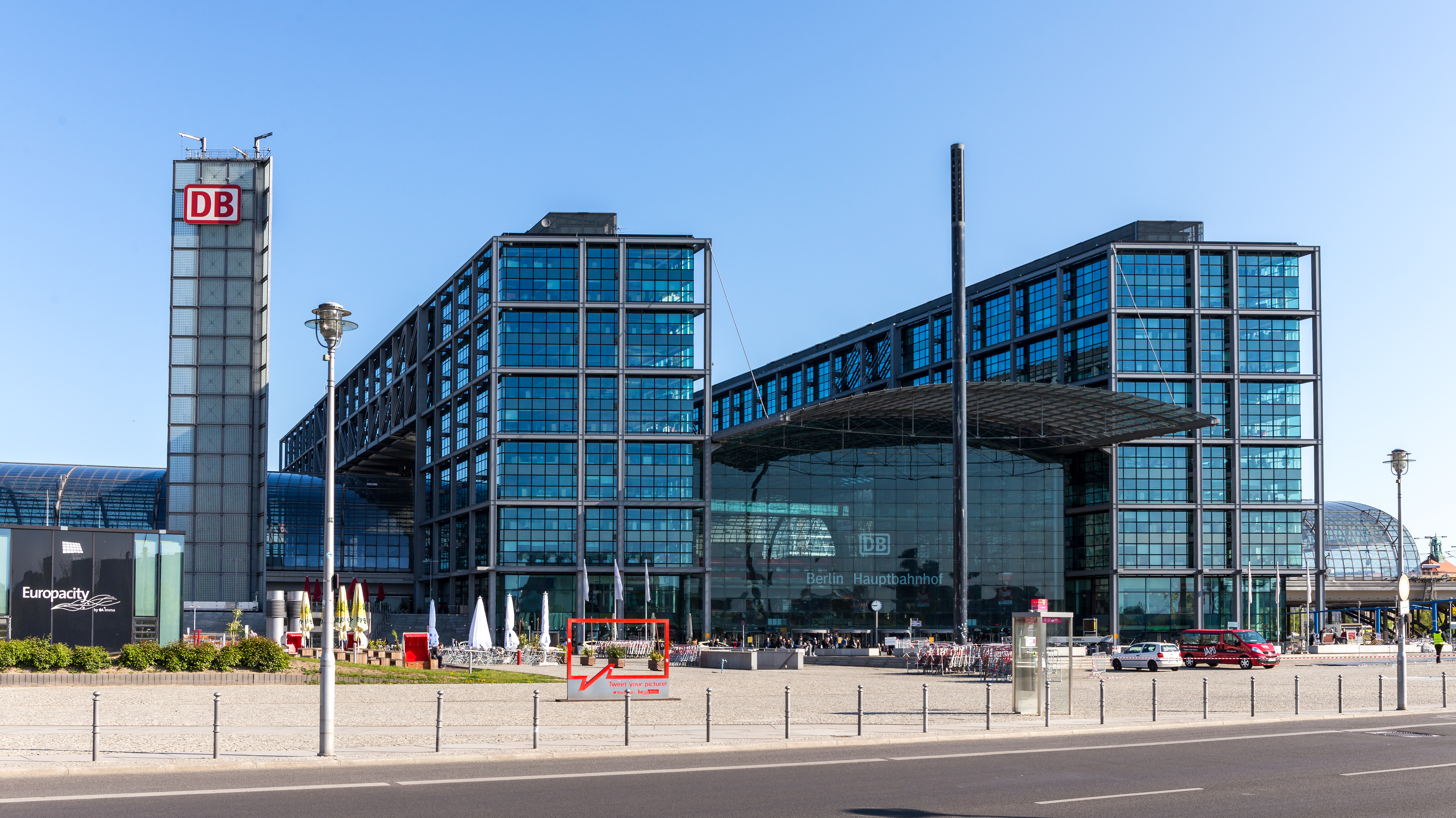 Berlin central station as seen from south. Architect: Meinhard von Gerkan.